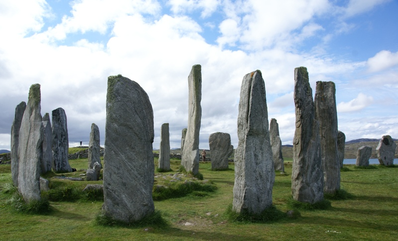 Calanais Standing Stones, Lewis, Scotland